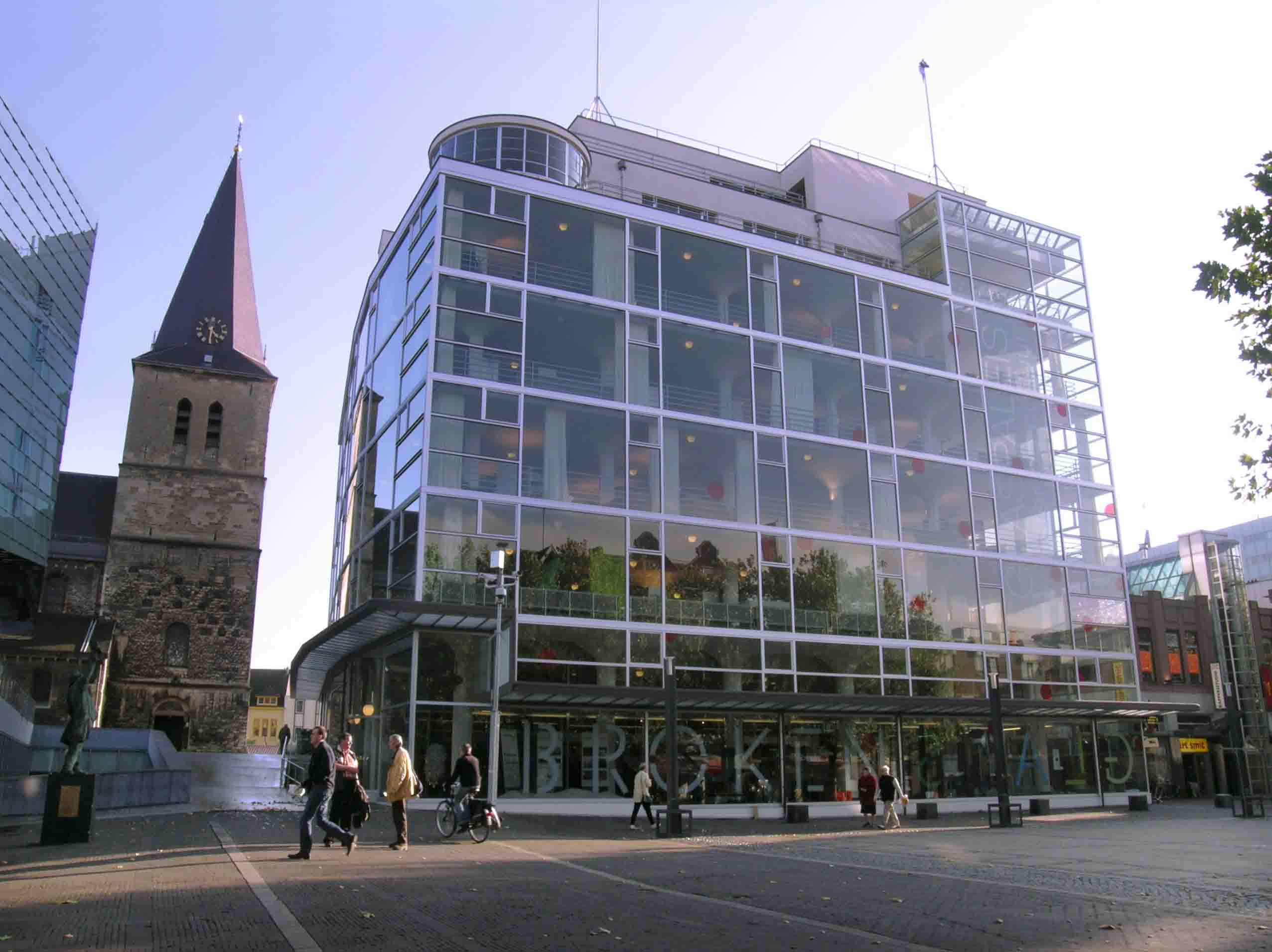 Photograph by Dirk van der Made (User:DirkvdM - for more photos see user:DirkvdM/Photographs). The front (north east) side of the Glaspaleis